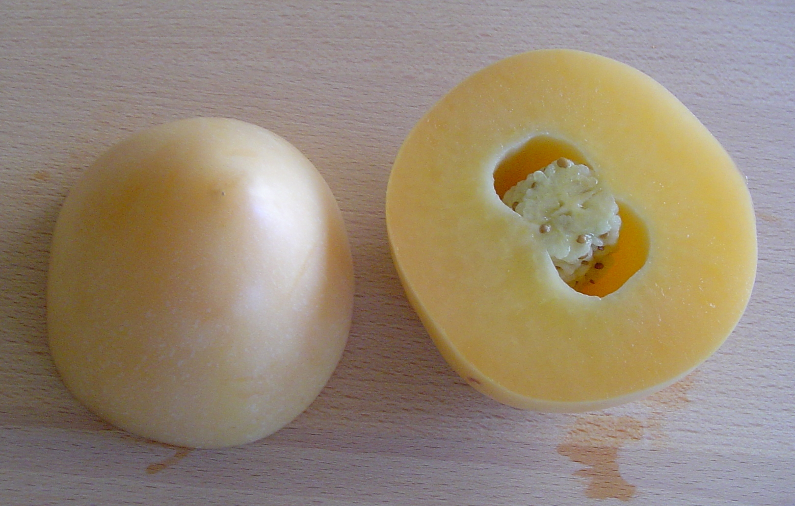 A Pepino. Photo by User:Thue on 27/5-2005.